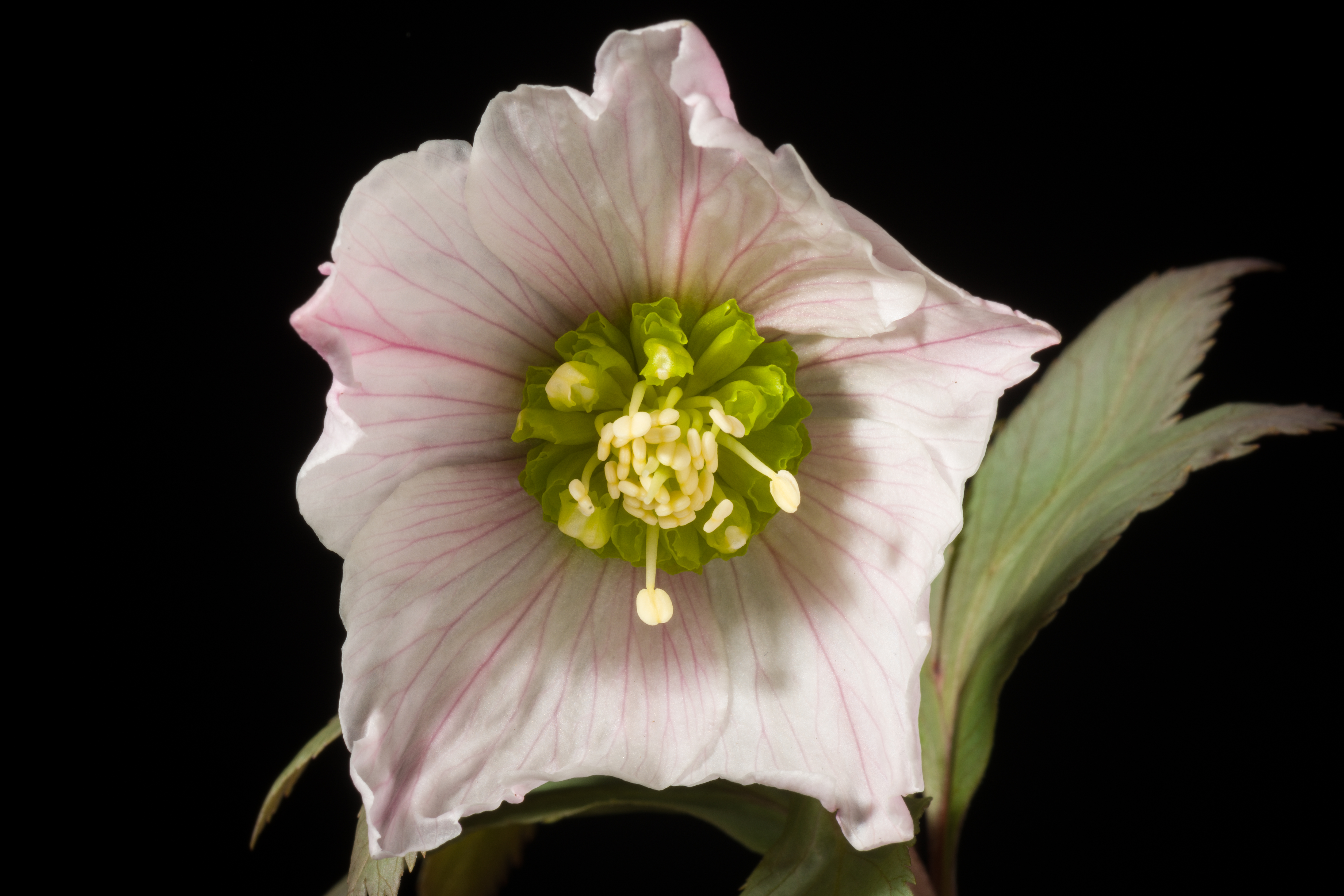 [Sichuan, China / 中国四川省] Helleborus thibetanus 'Sichuan #200301' Franch., Nouv. Arch. Mus. Hist. Nat. sér. 2, 8: 196 (1886)